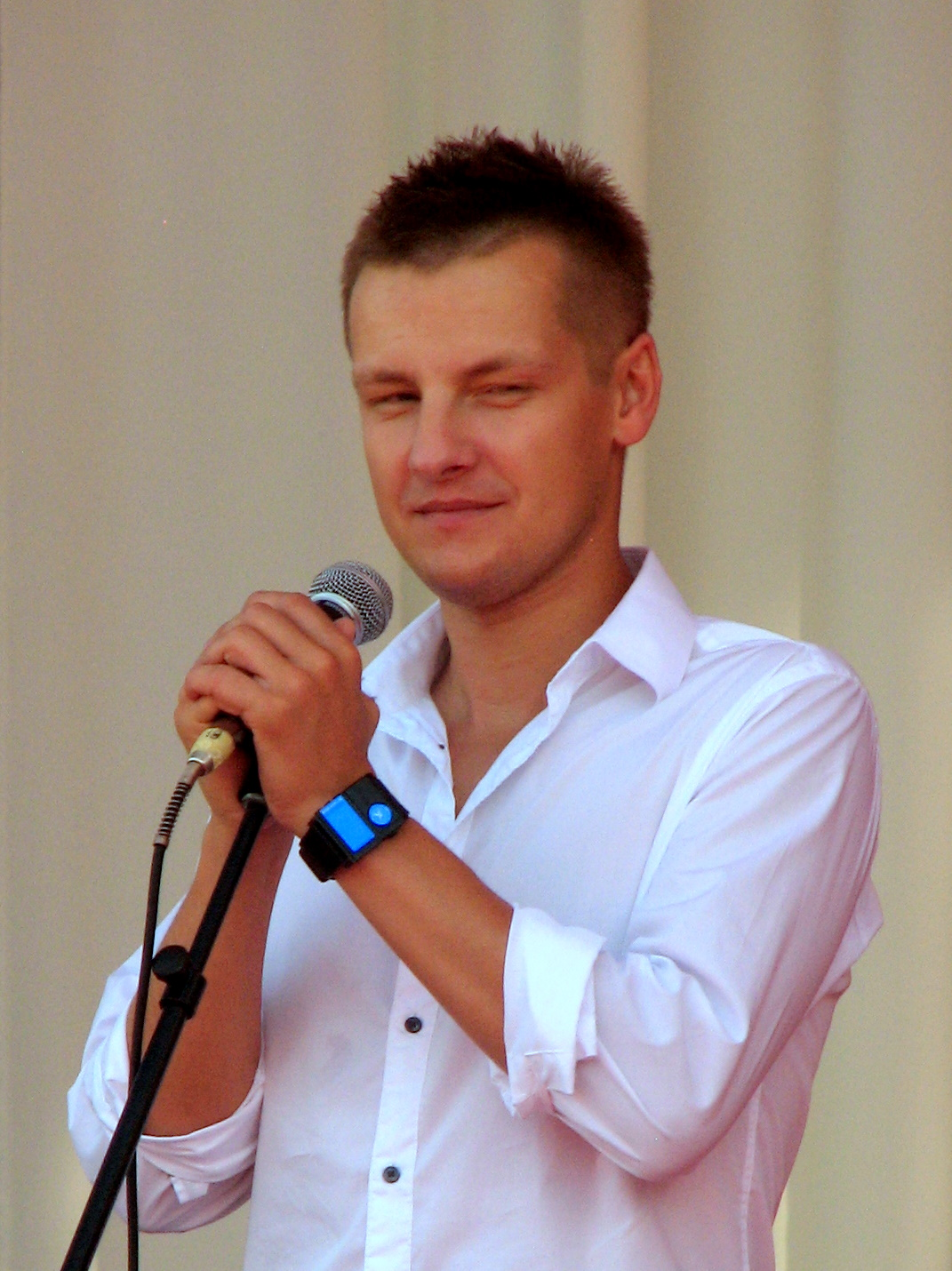 Marcin Mroczek during IV Meeting Of Fans of the TV Series "M jak miłość" in Gdynia 2010. "M jak Miłość" in exact translations: "L as Love".